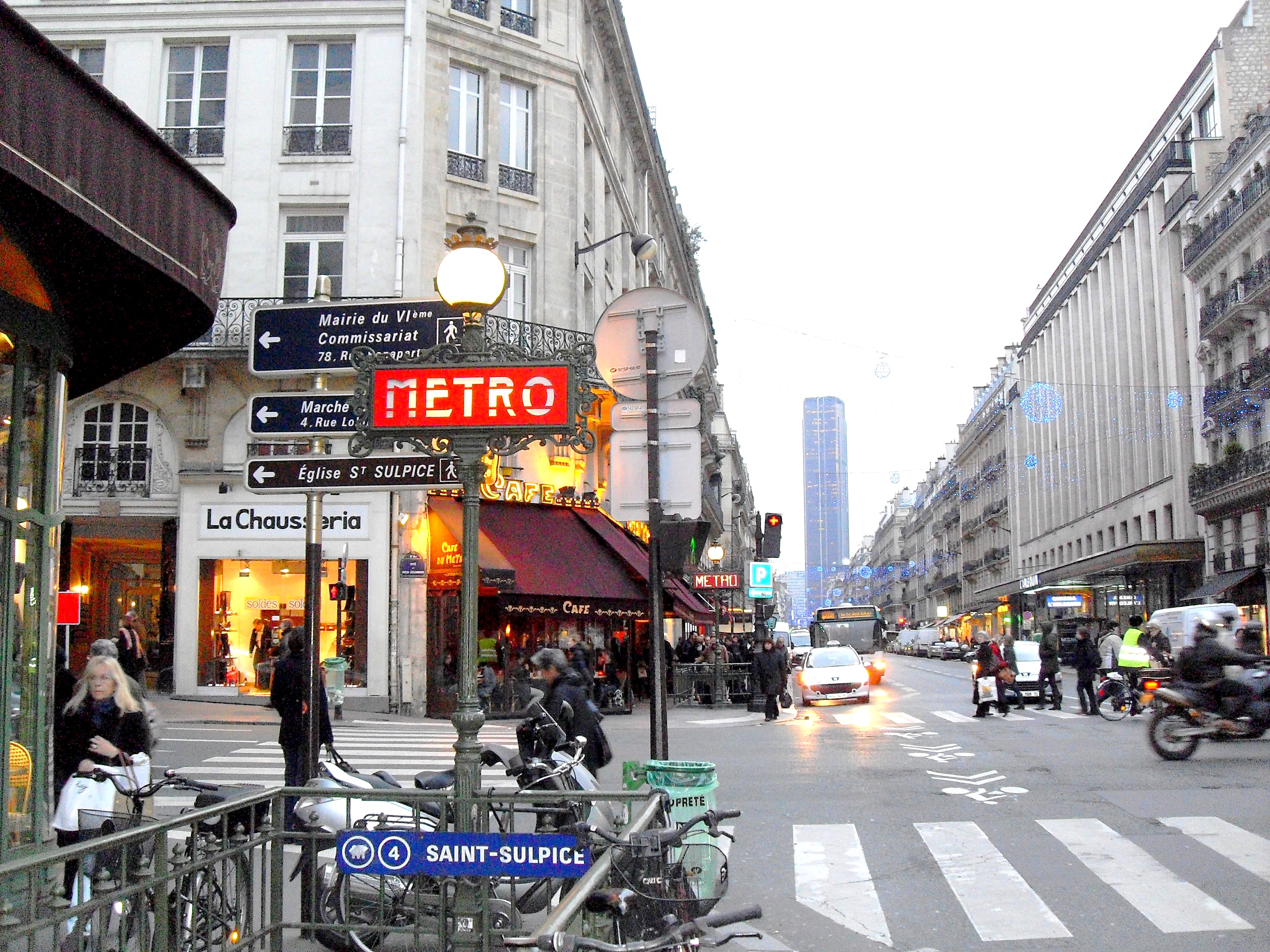 Paris Station de métro Saint-Sulpice (ligne 4) and tower Montparnasse